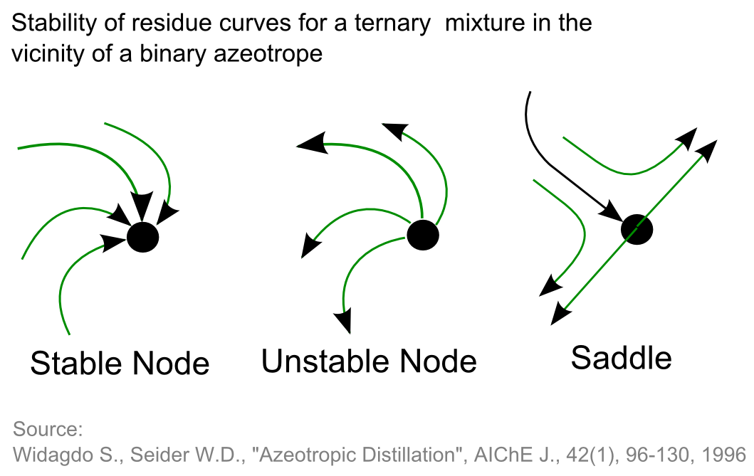 Residue Curves Node Classification